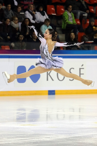 Alina Zagitova at the Trophée de France 2017 - Short program